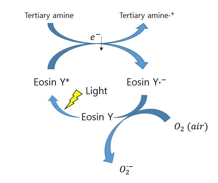 It shows mechanism of photochemical process of eosin.